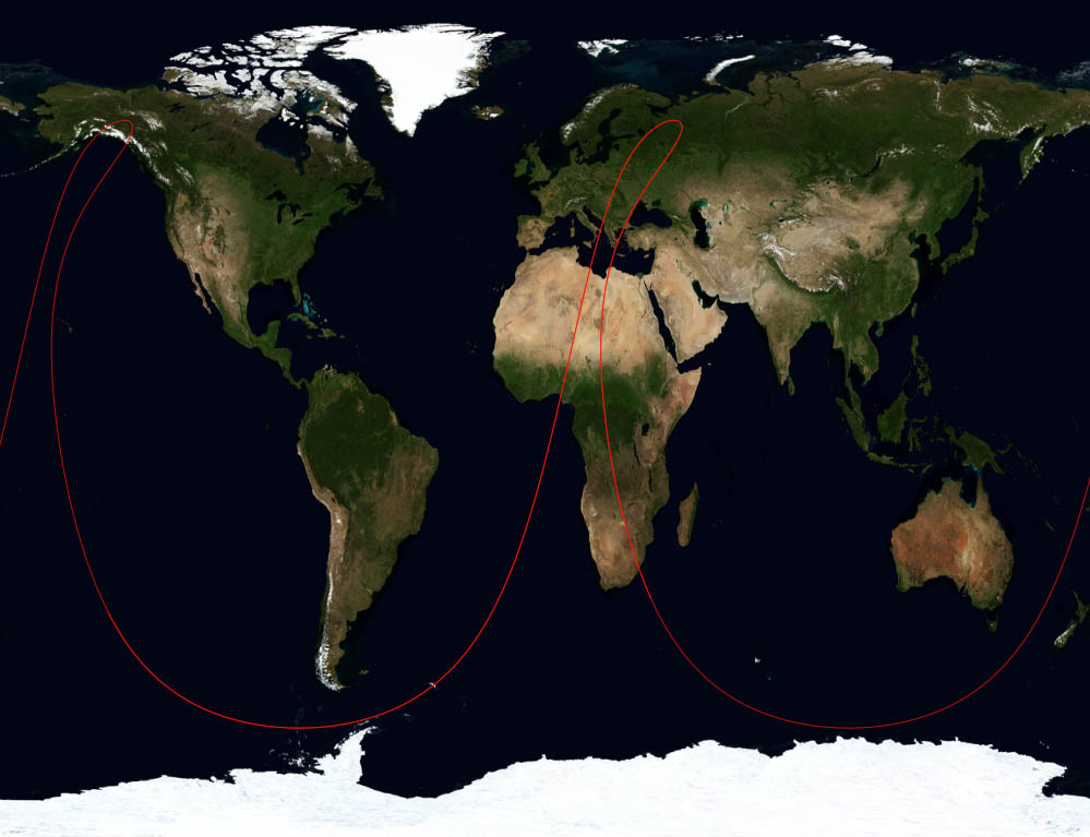 Ground track of Russian satellite Kosmos 2469. Plotted against a PD NASA map using GPL gpredict software.